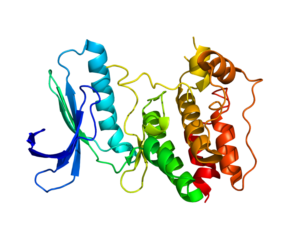 Structure of protein TTK.Based on PyMOL rendering of PDB 2ZMC.